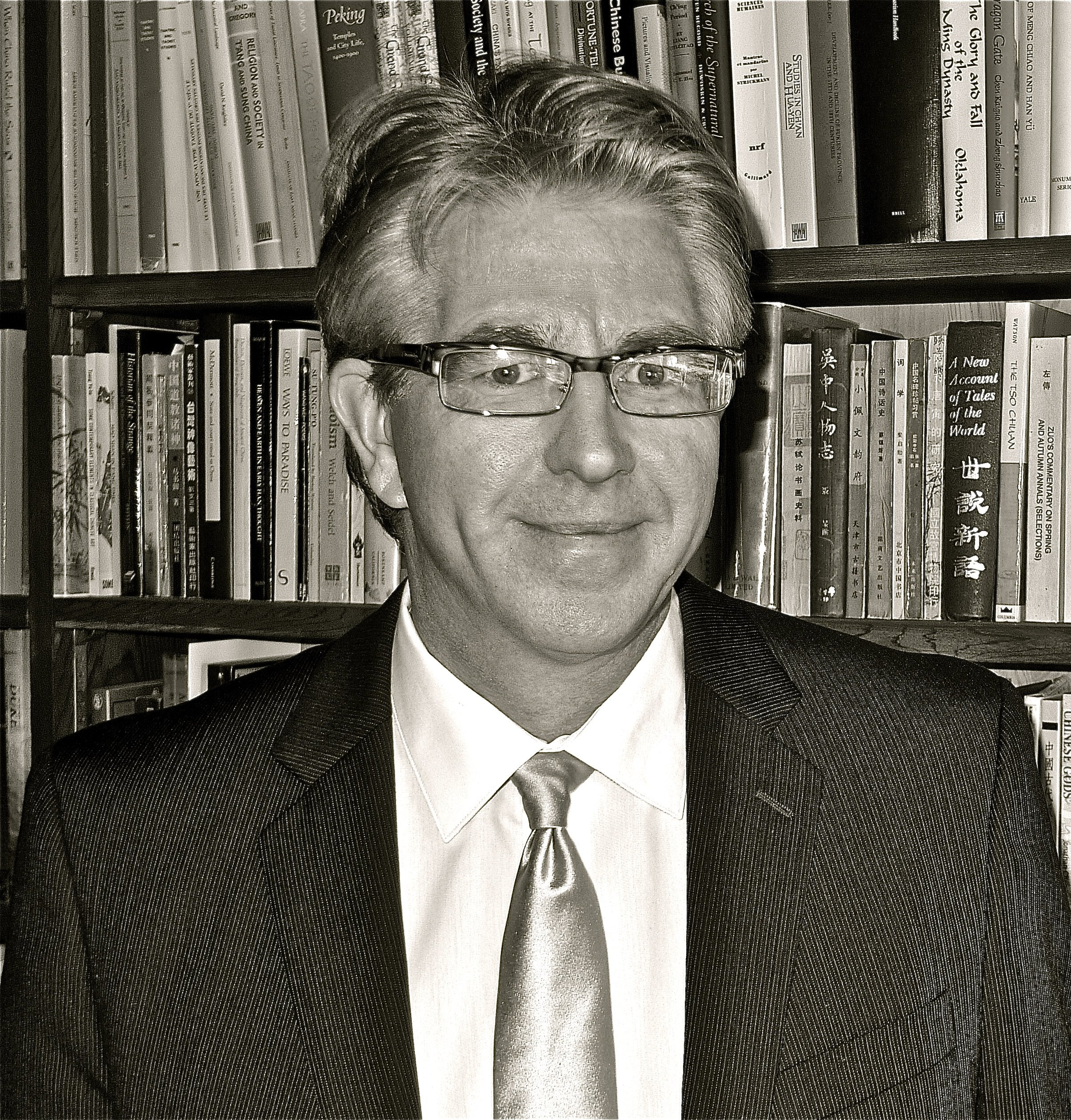 2011 photo of Dr. Stephen Little